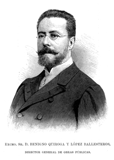 Spanish Politician Benigno Quiroga